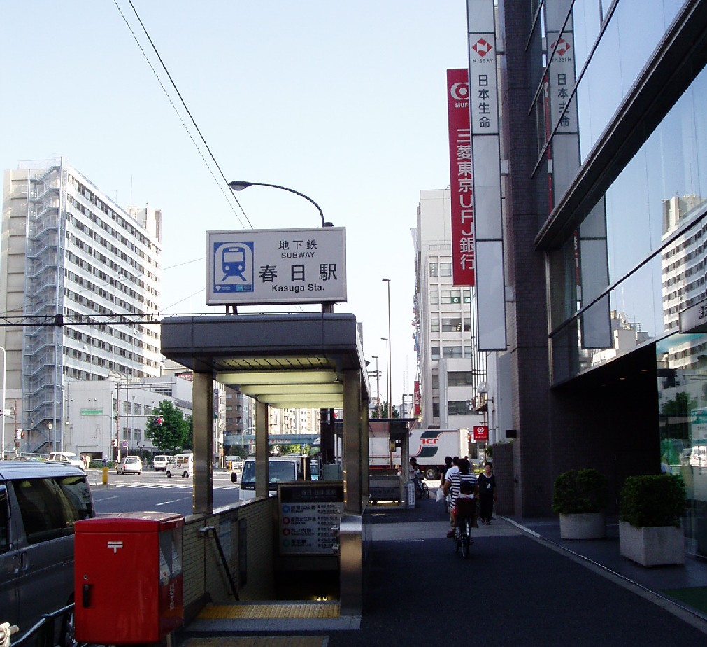 A3 exit, Kasuga Station, Tokyo, Japan